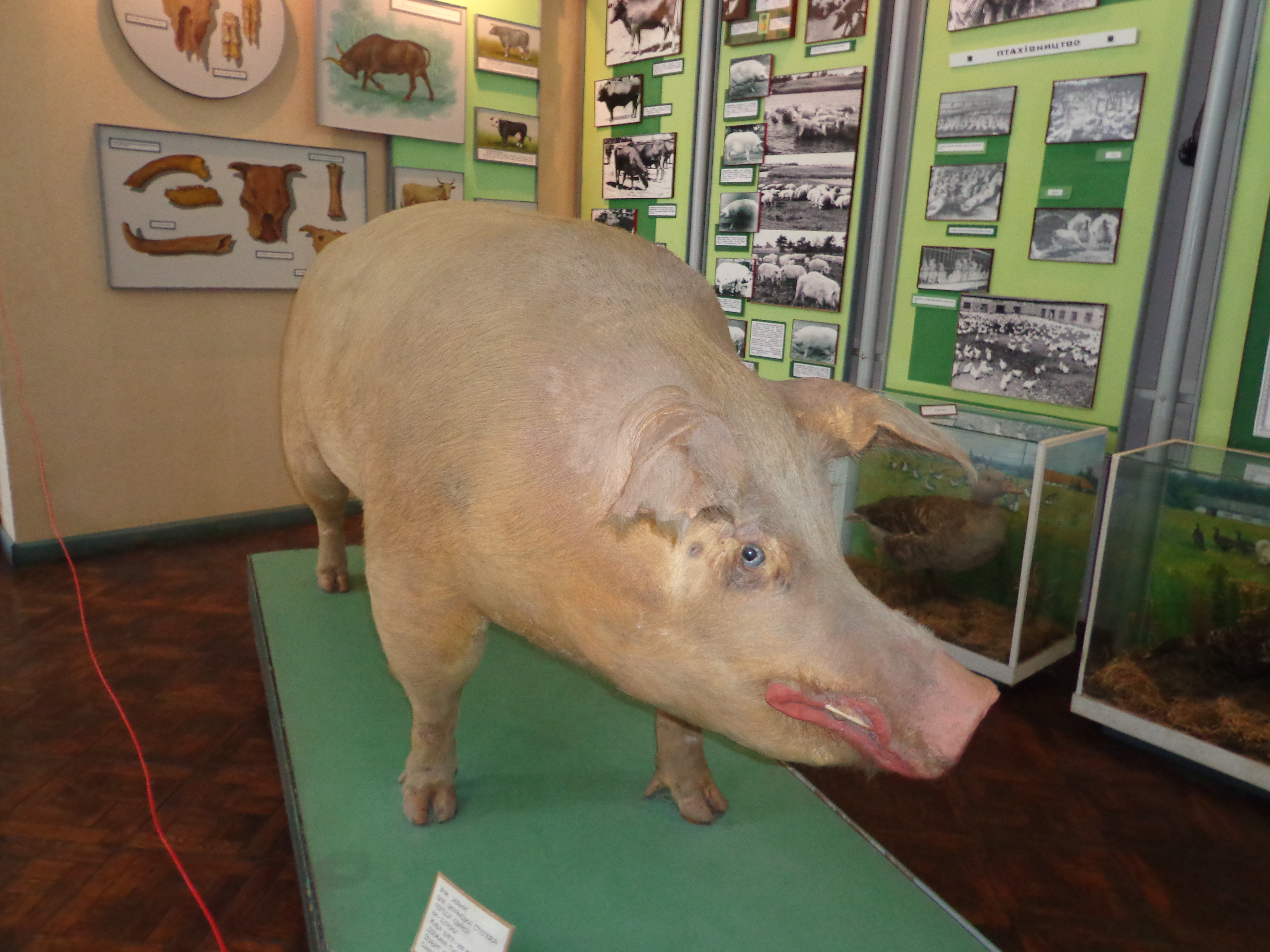 Stuffed hog in Melitopol Museum, Melitopol, Ukraine